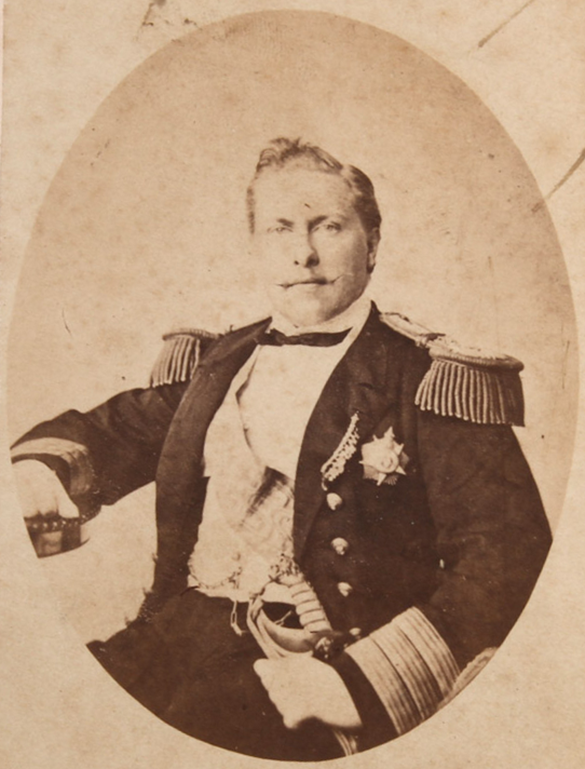 King Luís I of Portugal, c. 1862.